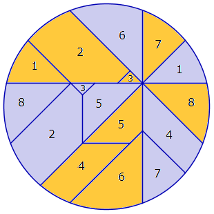 Proof withouth words of pizza theorem.